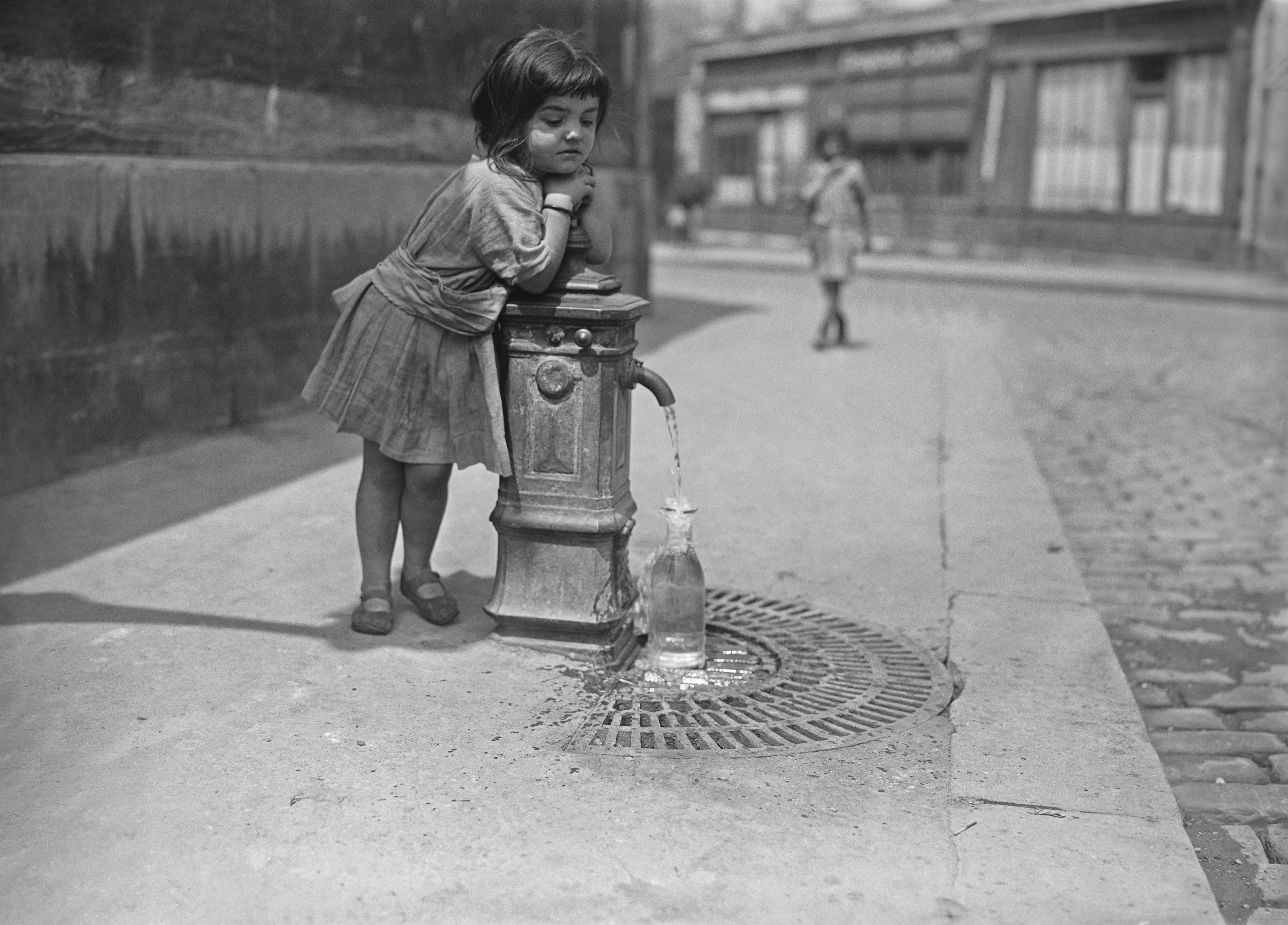 A little girl and a standpipe, Paris, France.